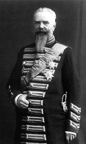 Foto of Boris Vladimirovich Stürmer (1848 - 1917), Prime Minister of Russia in 1916